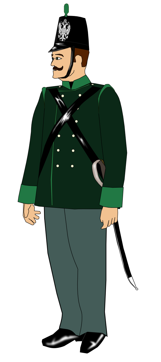 Uniform of "Aufseher" of Austrian c.k. Financial Guard. Based on prescriptions: Vorschrift für die k.k. Finanzwache, Zahl 52041-1846. Verordnungsblatt des Österreichische Finanzministeriums Nr. 46, Semester 1I., Jahrgang 1858. Vetter, Arnold. 1892. Oesterreichische Finanzwache. Vorschriften über deren Organisation, Befugnise, Pflichten und Ausbildung für den Beruf. Wien. Taufer, Franz (zal.). Finanzwachvorshrift vom 19. Marz 1907.